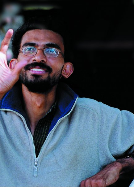 Sekhar Kammula - film director, writer & producer.